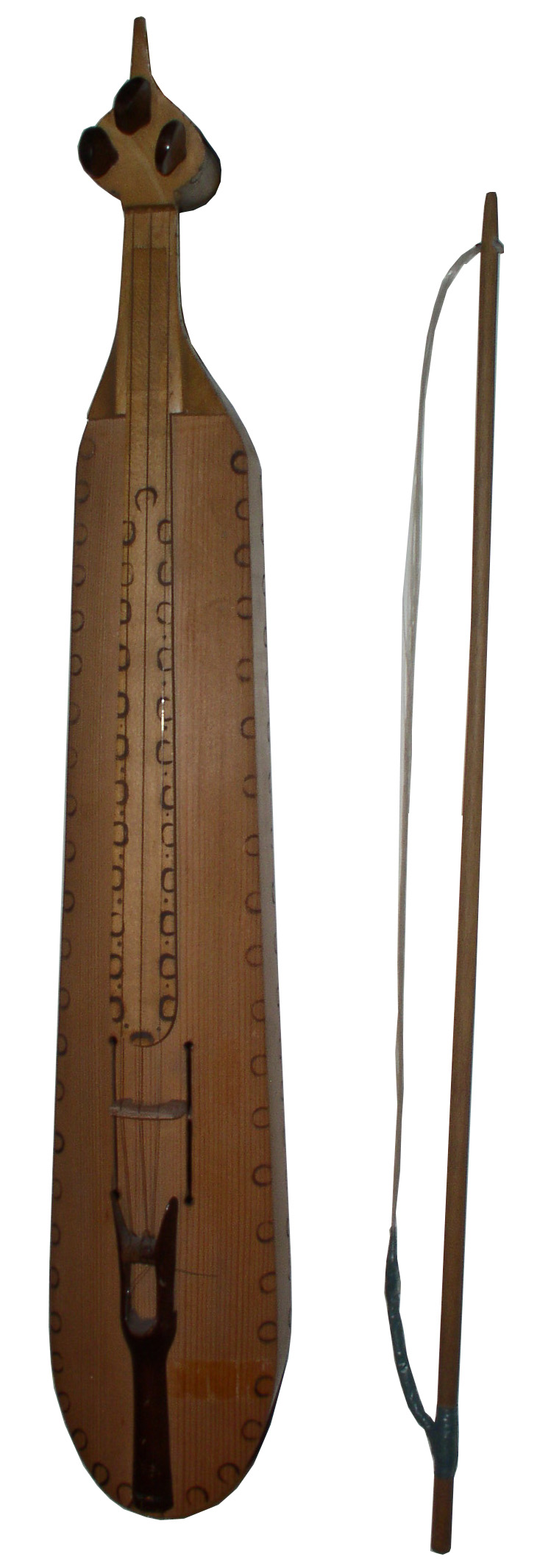 A cheap kemenche